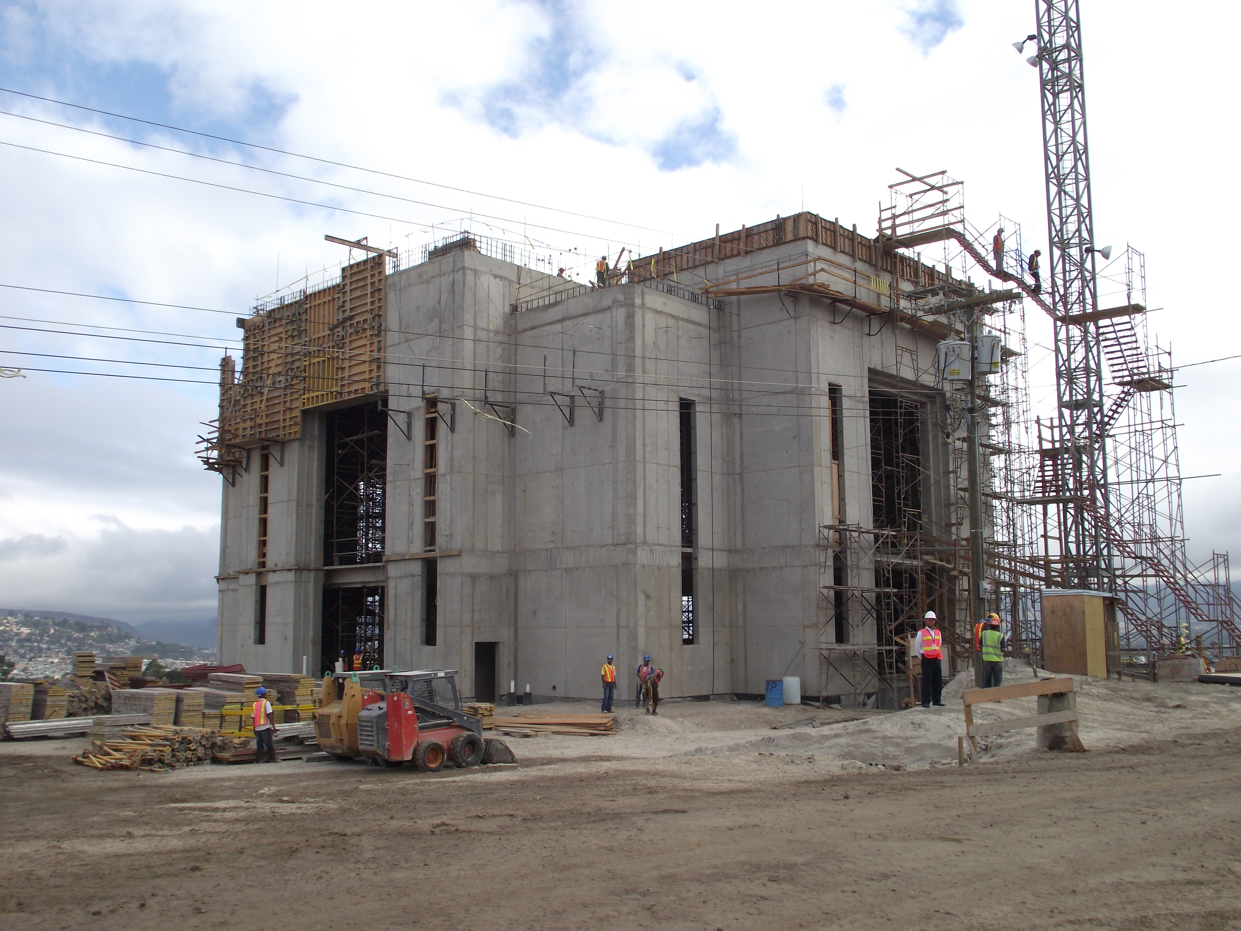 The Tegucigalpa Honduras Temple, announced in 2006, of The Church of Jesus Christ of Latter-day Saints (LDS Church), under constustion.